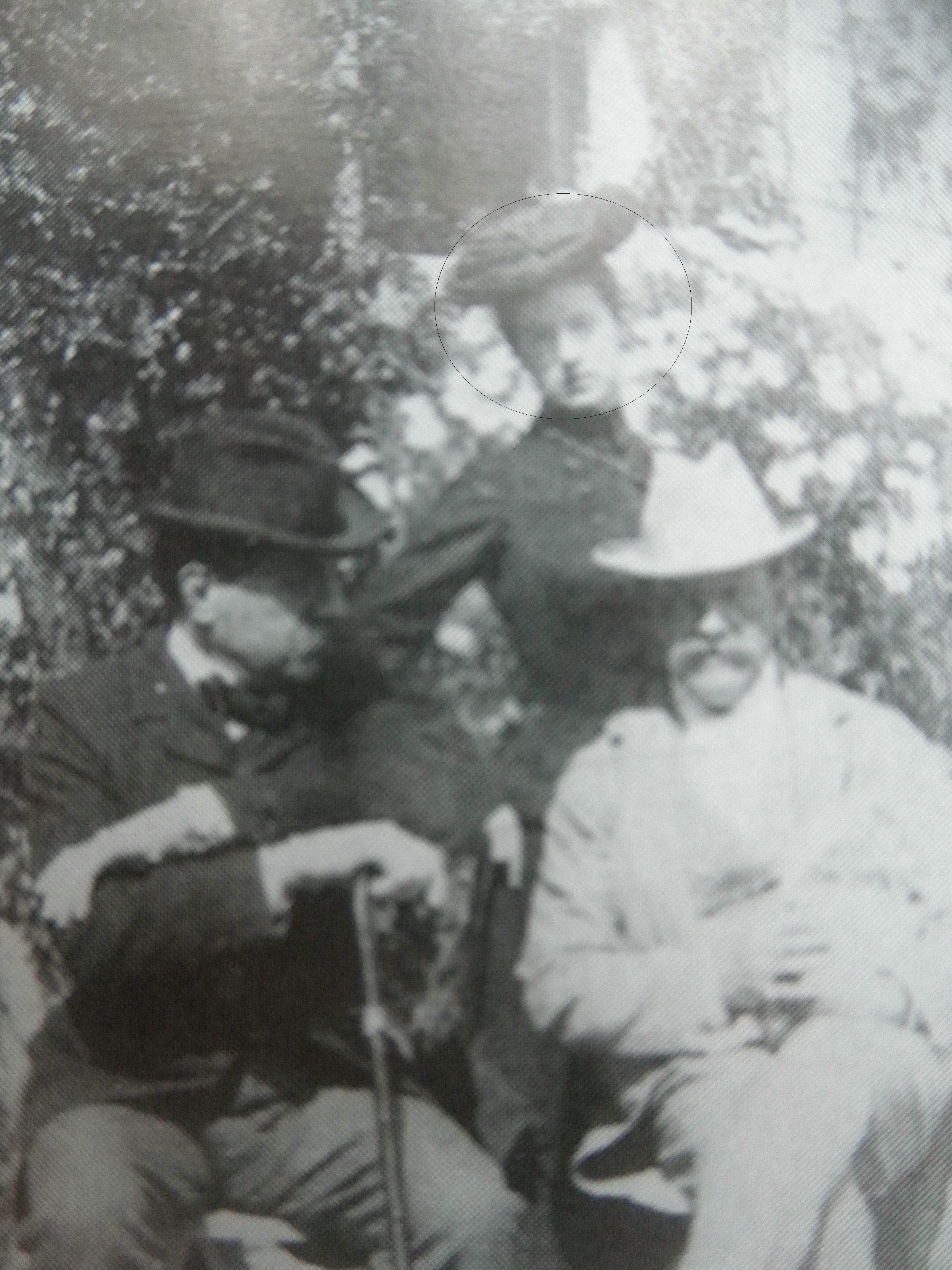 bourget